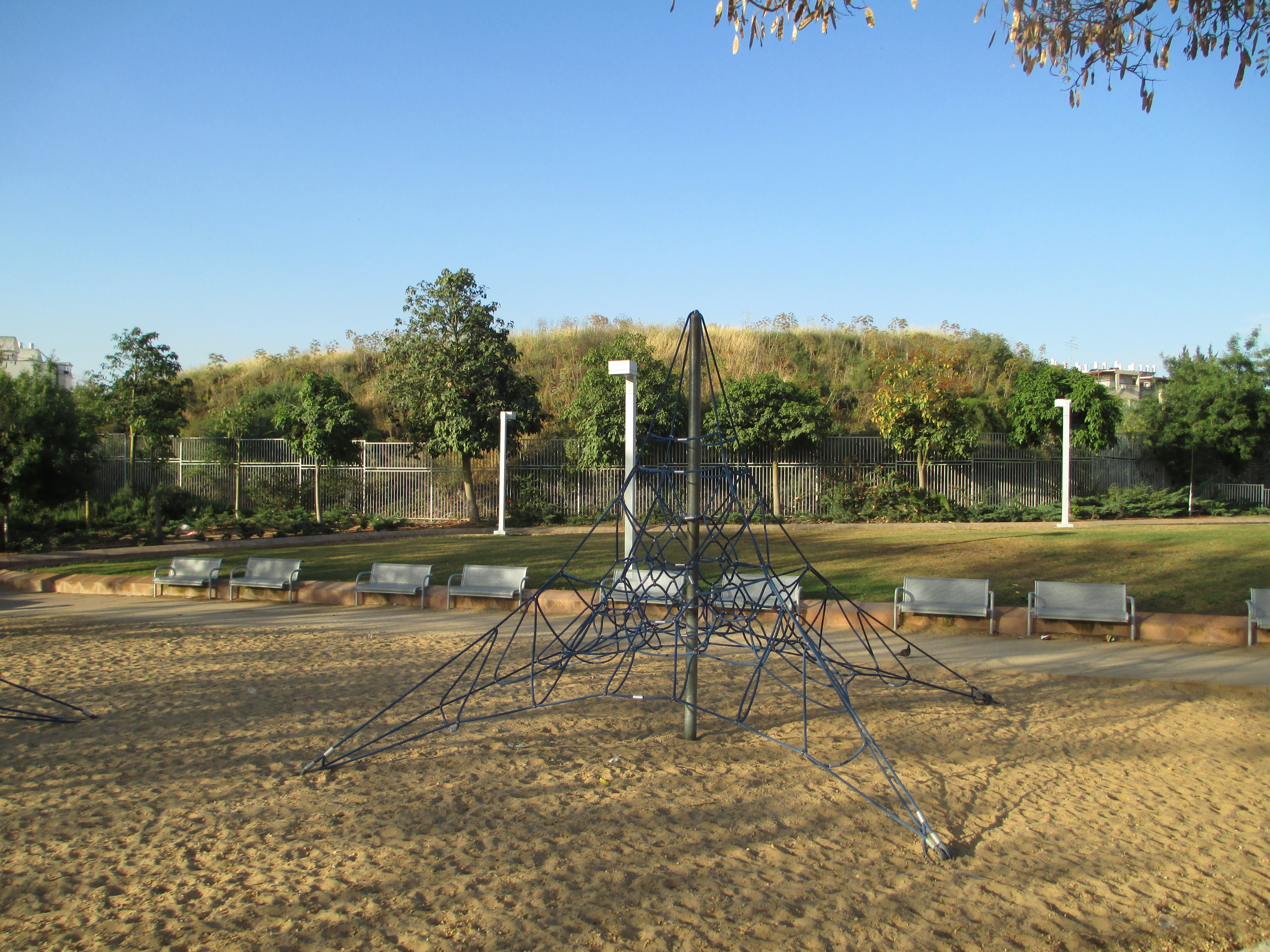 tel abu zeitun in bnei brak, israel